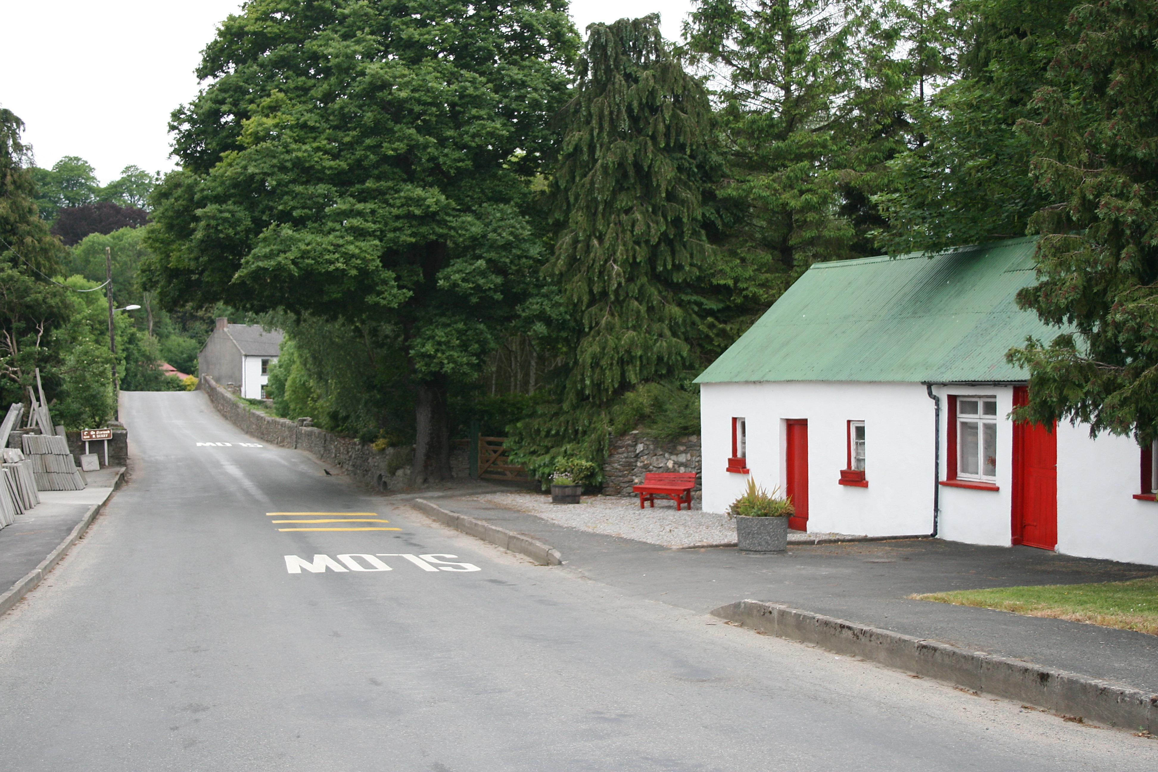 Watch House Village, County Wexford, Ireland. The bridge leads into County Carlow and the twin village of Clonegal.